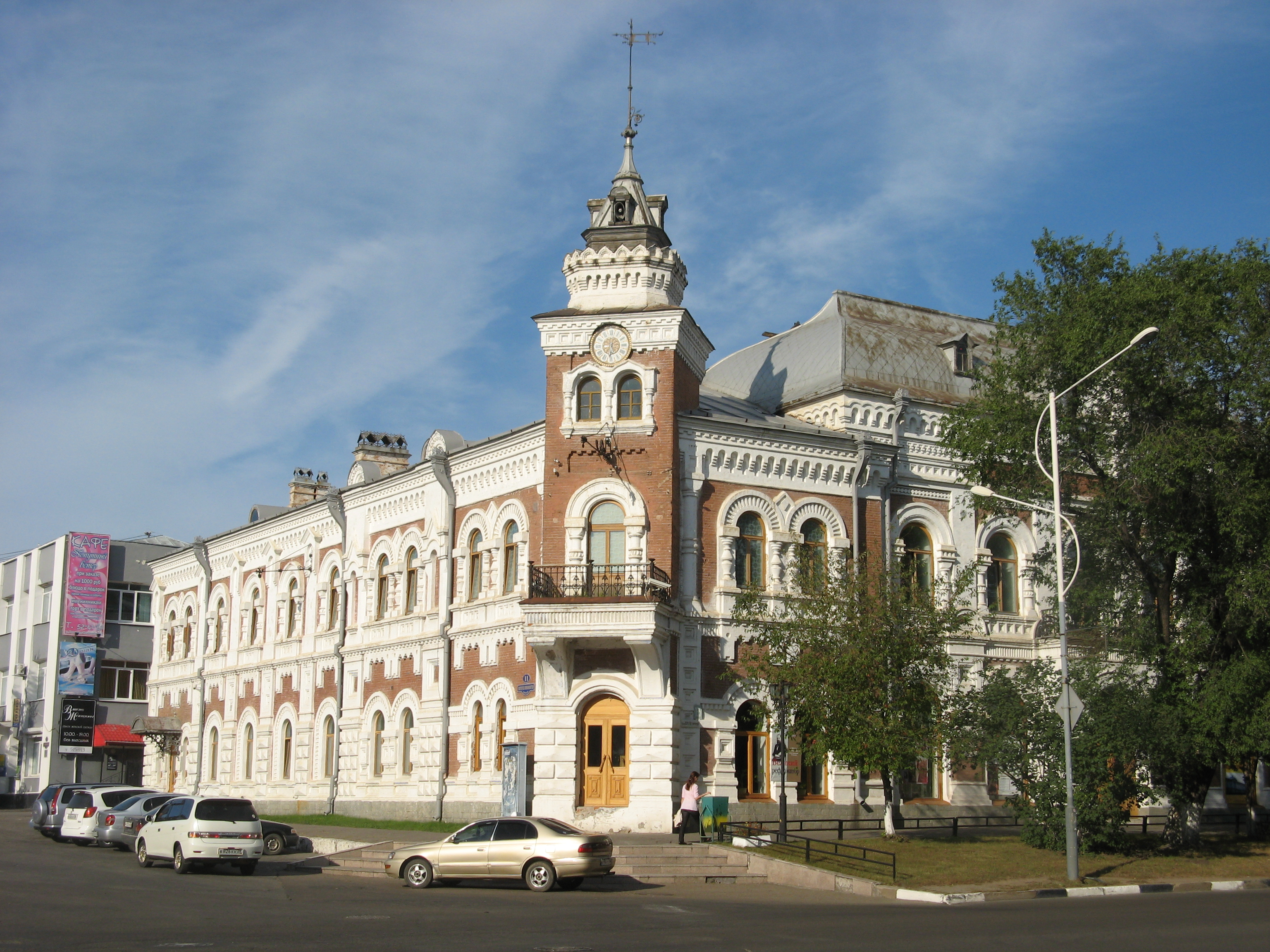 Amur Regional Museum of Local History and Nature was found in 1891. From the beginning of twentieth century museum works in this building of former trade house of Kunst & Albers. An Official site of the museum